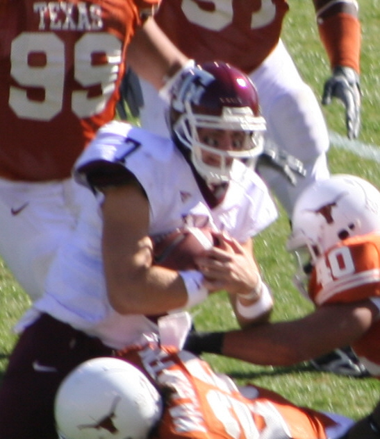 Members of the 2006 Texas Longhorn football team tackle Texas A&M's quarterback, Reggie McGee